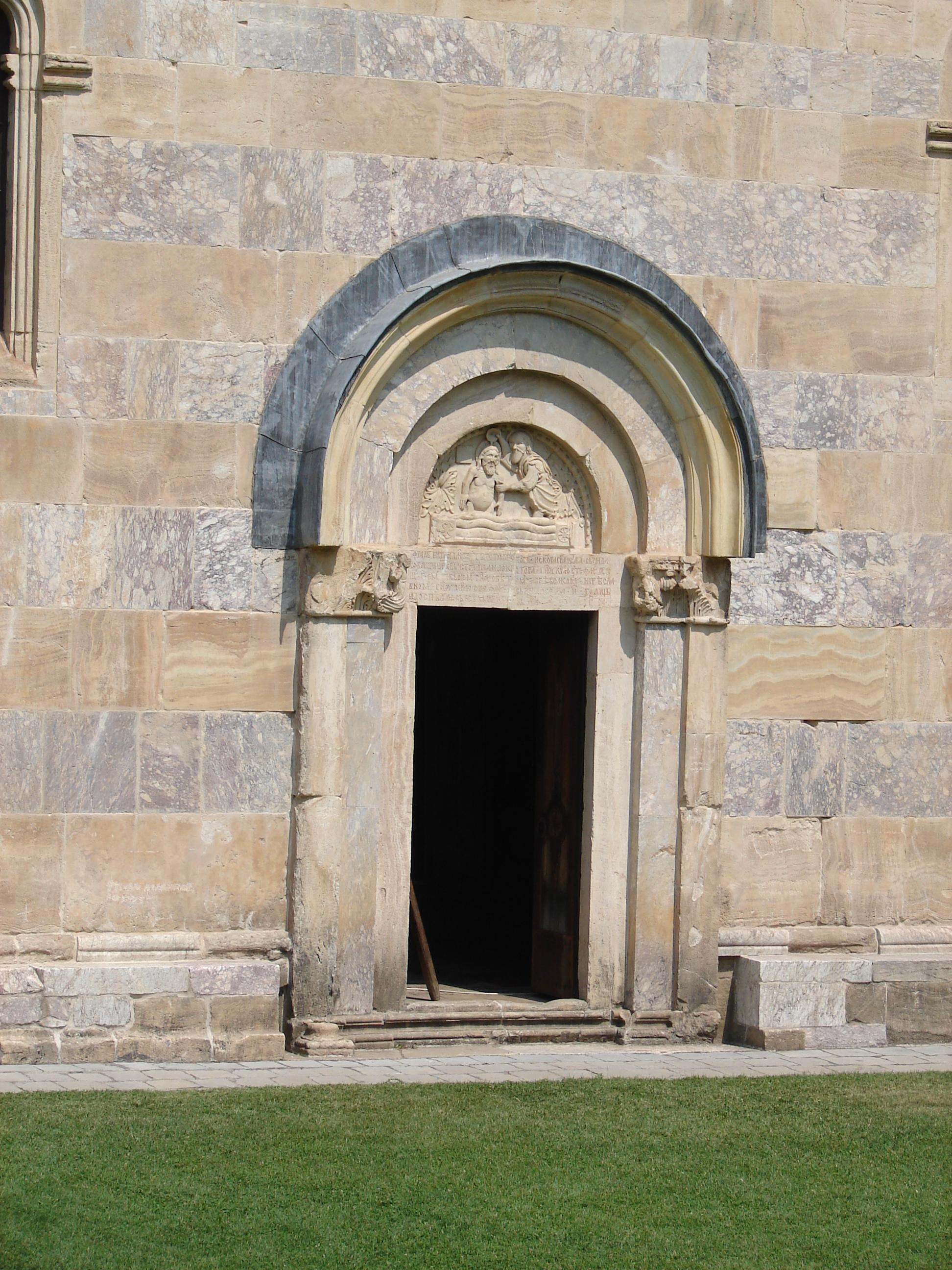 One of portals on Visoki Dečani monastery.